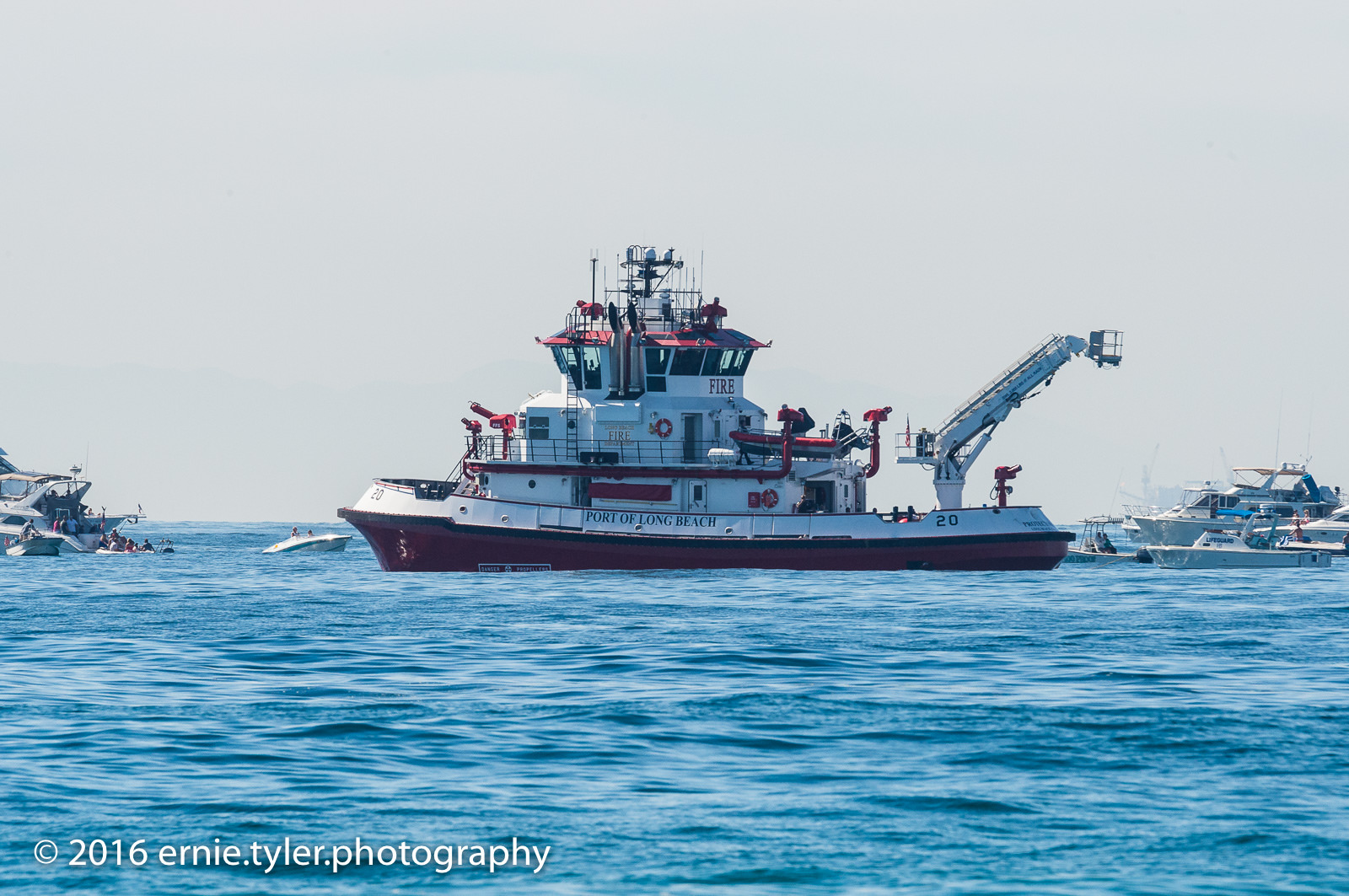 Long Beach Fireboat Protector in position in case of emergency. Huntington Beach Airshow 2016.